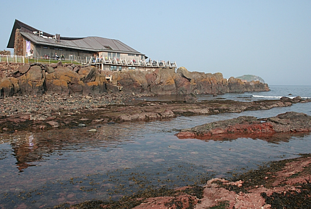 Scottish Seabird Centre Opened in 2000, the centre contains an exhibition which includes live CCTV of nesting gannets on the Bass Rock a few miles away. See also 155673 and 166367. The Centre's own web site is at